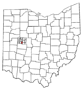 Adapted from Wikipedia's OH county maps. Created by SwissCelt.